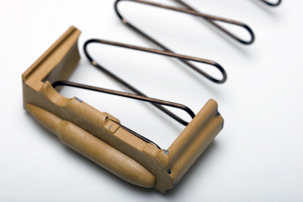 Improved Magazine Follower. The new follower of the Improved Magazine incorporates an extended rear leg and modified bullet protrusion for improved round stacking and orientation. The self-leveling/anti-tilt follower minimizes jamming while a wider spring coil profile creates even force distribution.